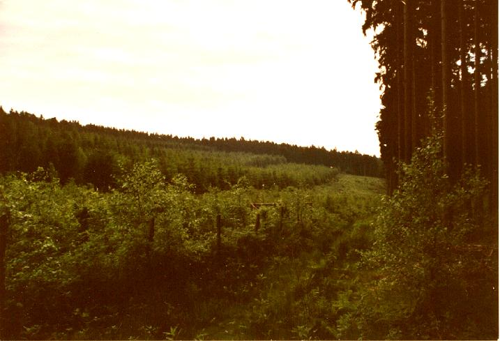 Cutting sections into the forest of Rabenstein